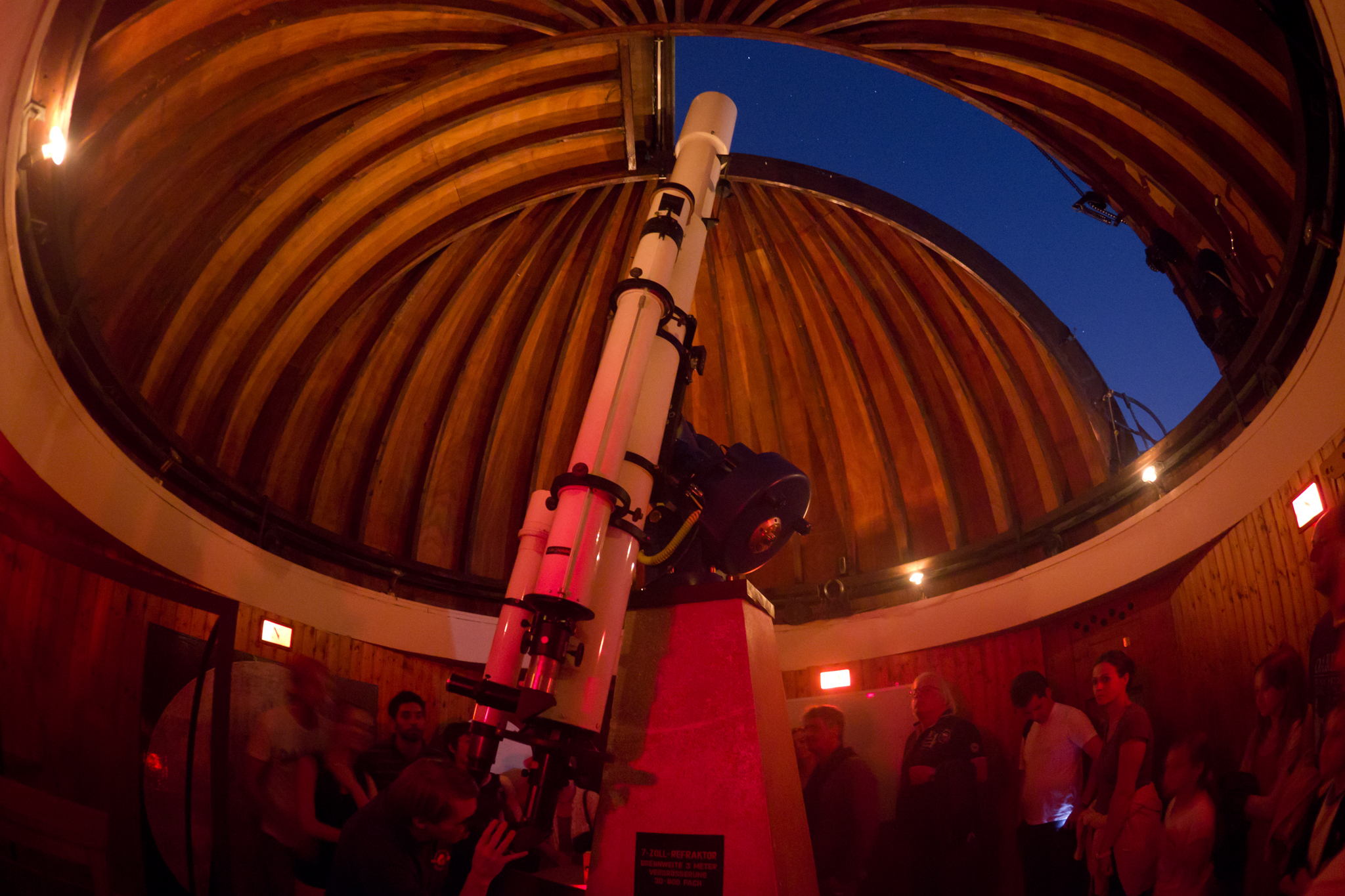 Observing with the 7" refractor (178 mm aperture, 3000 mm focal length) of the Bavarian Public Observatory in Munich, Germany.